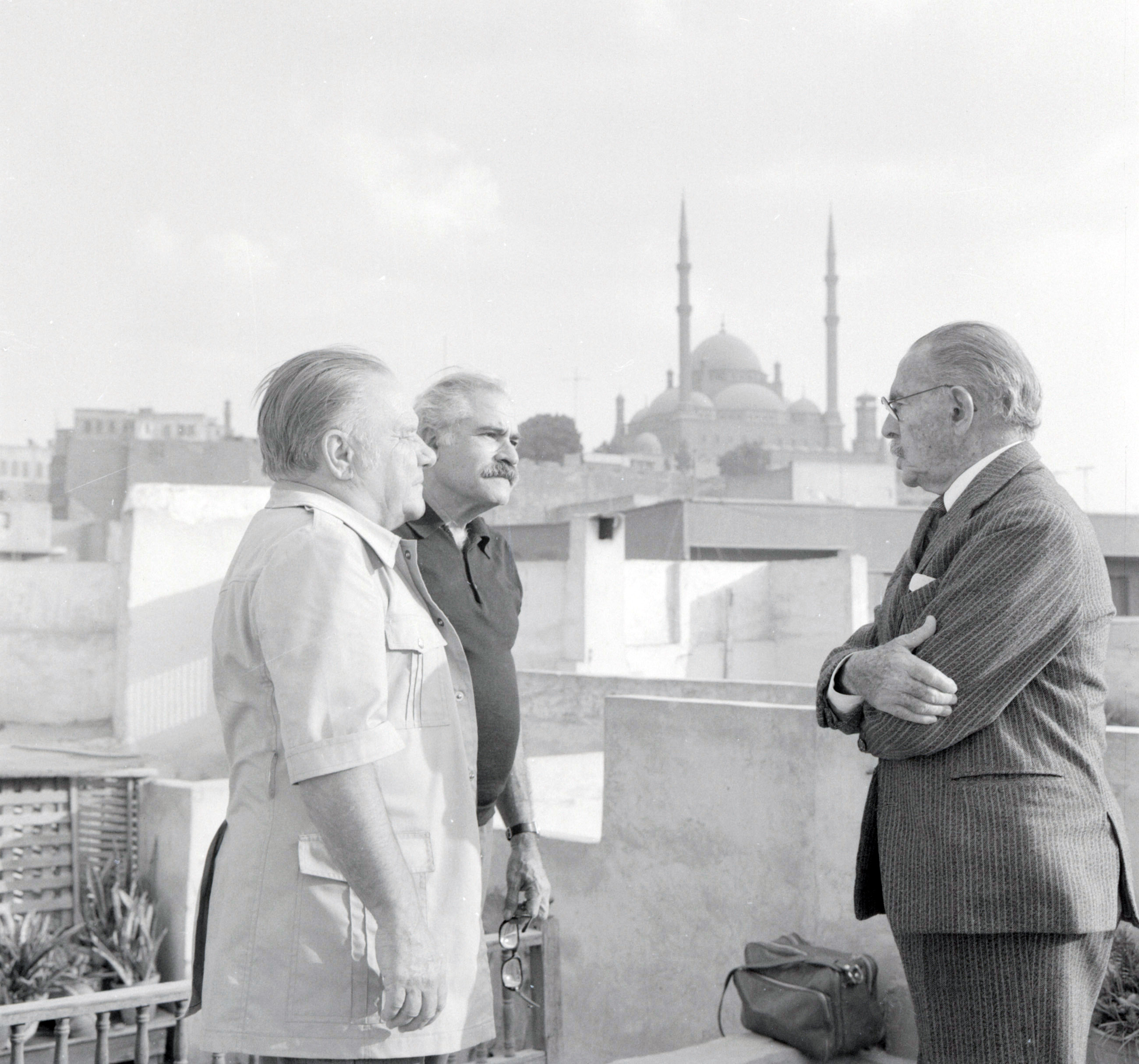 Lawrence Durrell (left), Dimitri Papadimos and Hassan Fathy (right), in Cairo